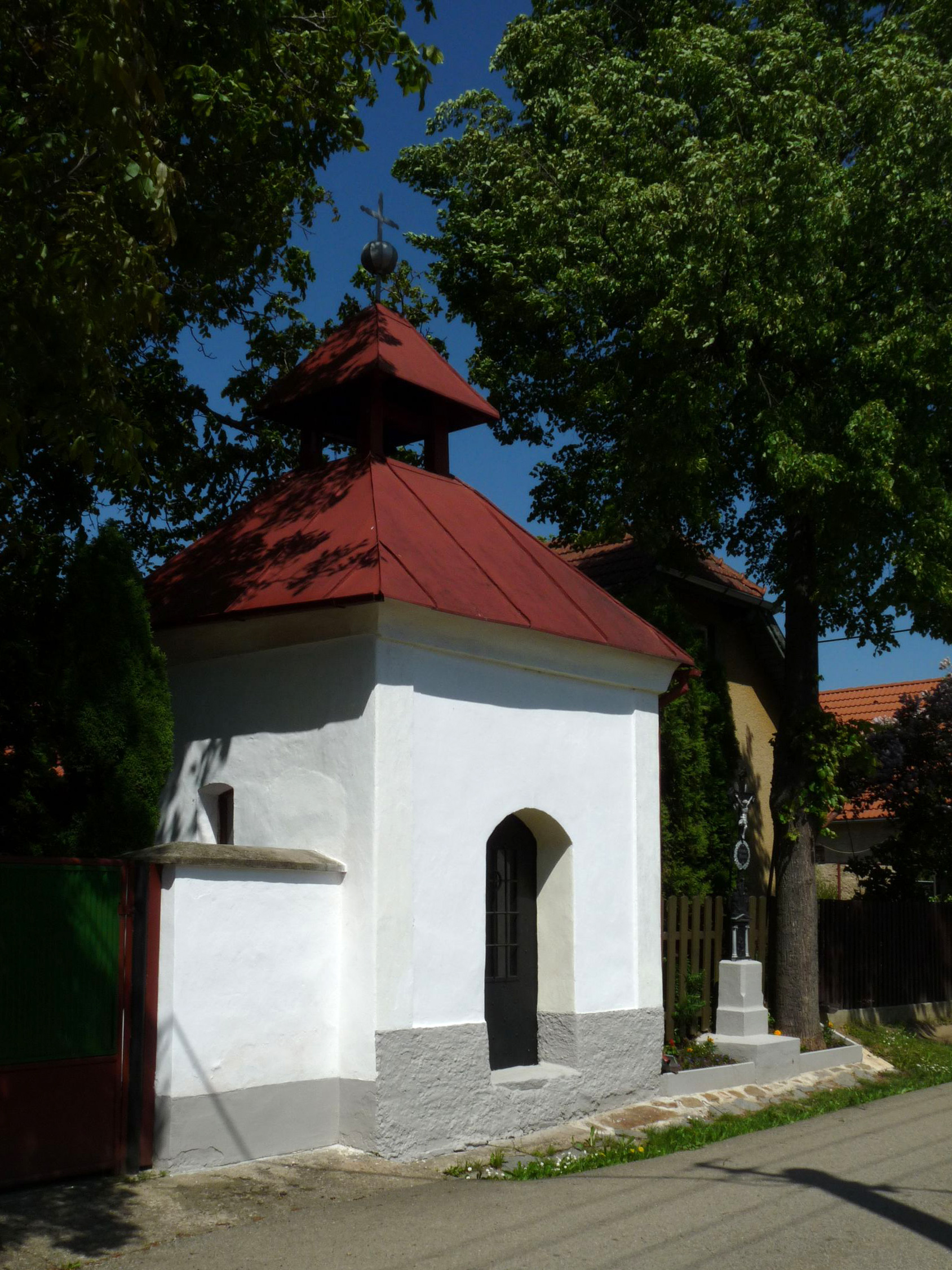 Chapel with a bell and an iron wayside cross at it in the village of Terezín, Tábor District, South Bohemian Region, Czech Republic, part of the municipality of Radenín.